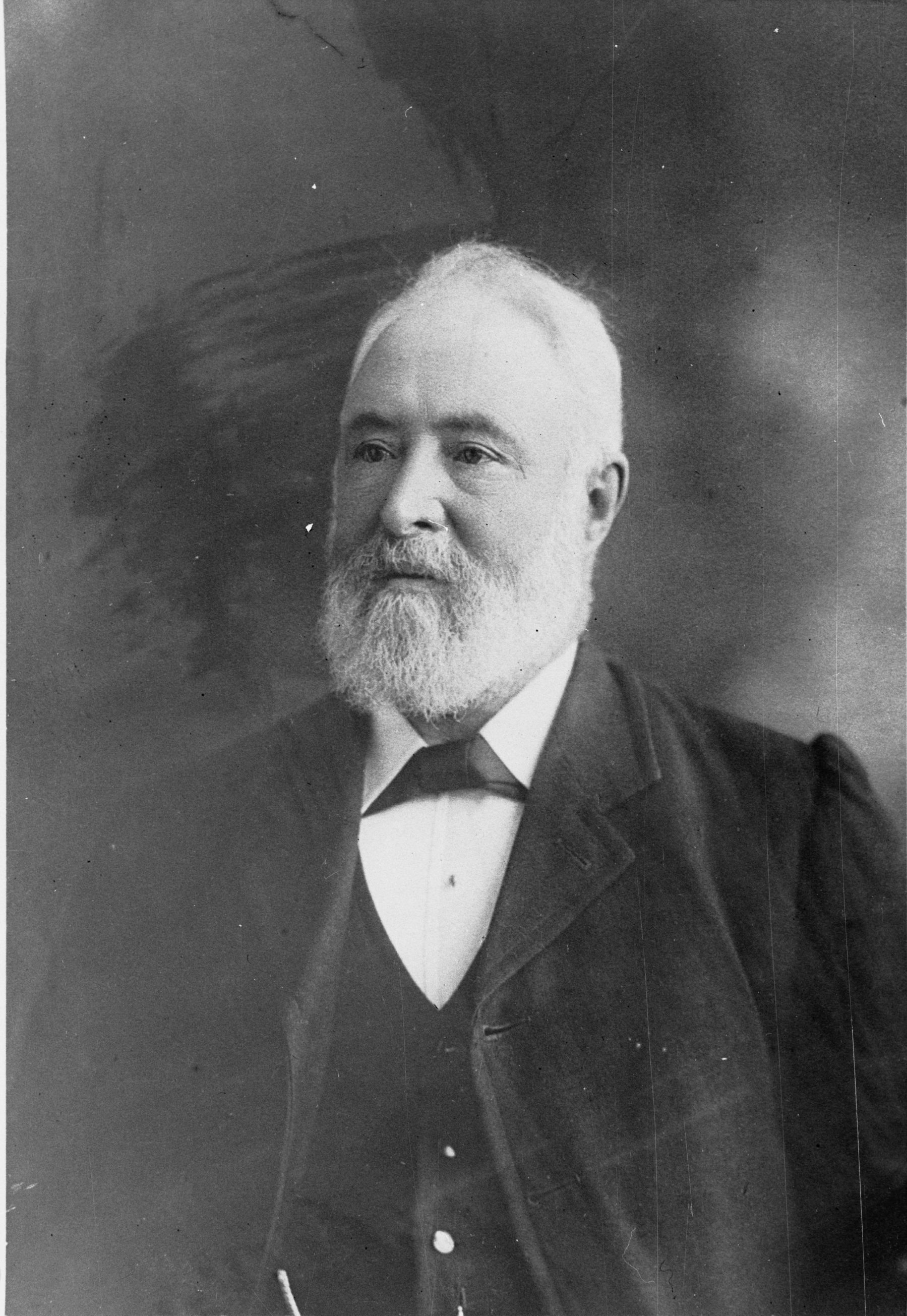 Microfiche incorrectly states this is Thomas Price - Refer "Cyclopaedia of South Australia", vol, I, pages 106 and 108. (G Brooks)